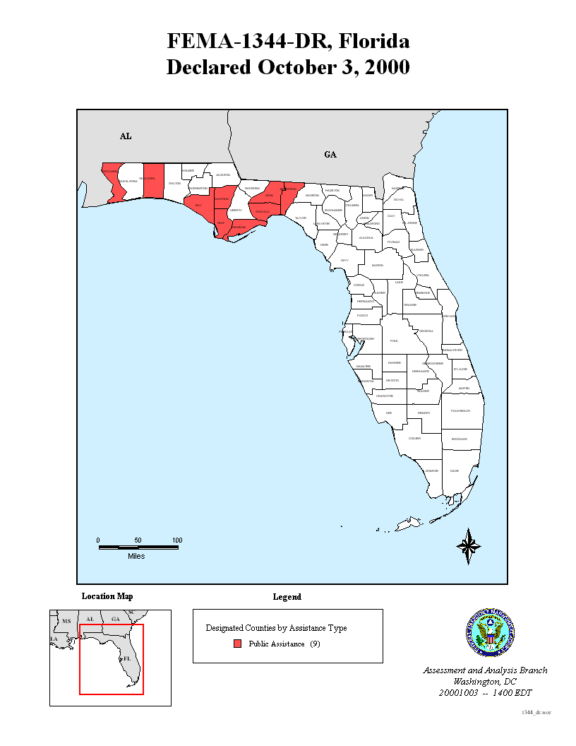 Areas eligible for public assistance after Tropical Storm Helene (2000).